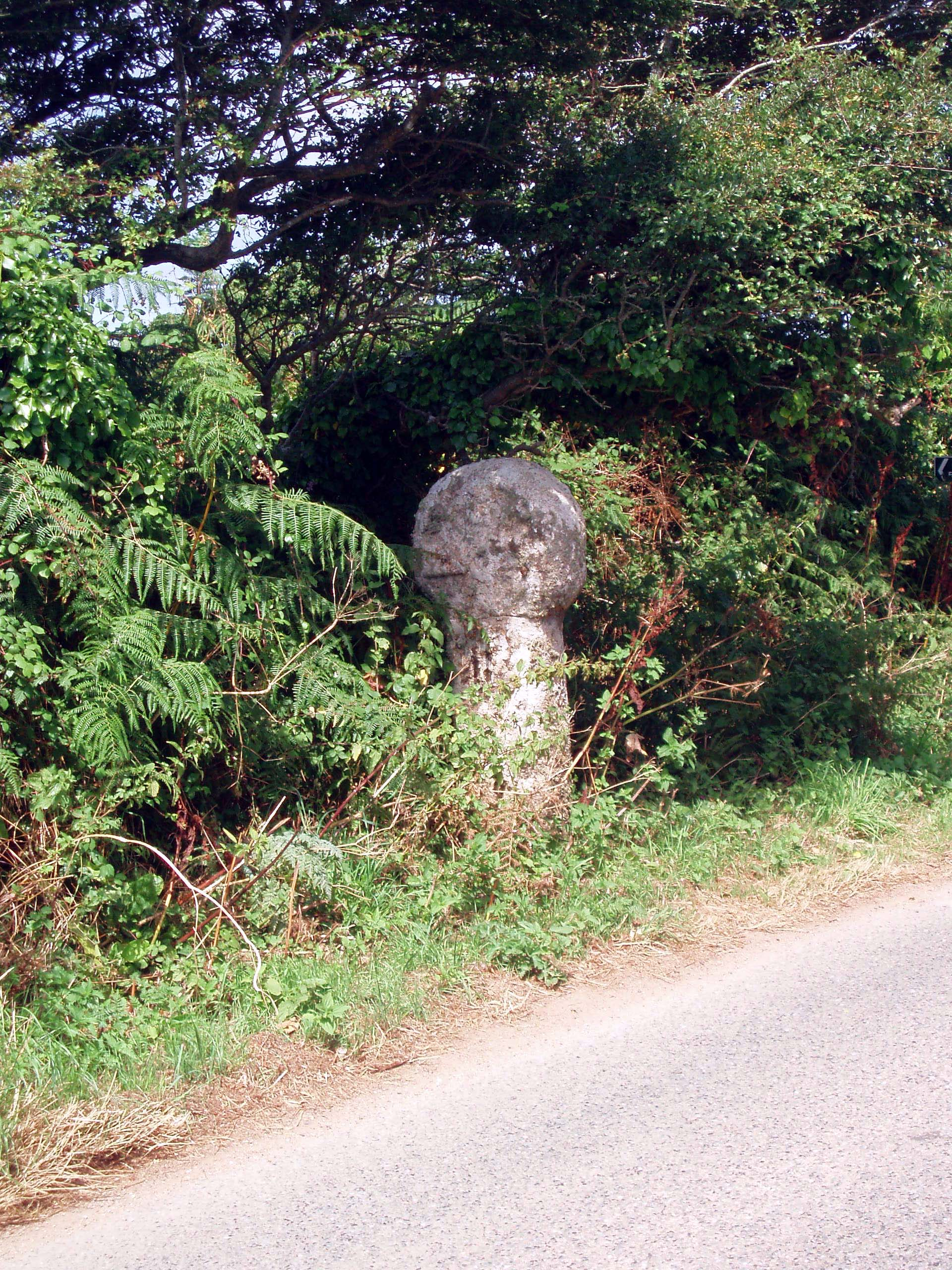 Boskenna Gate Cross near St Loy's Cove.